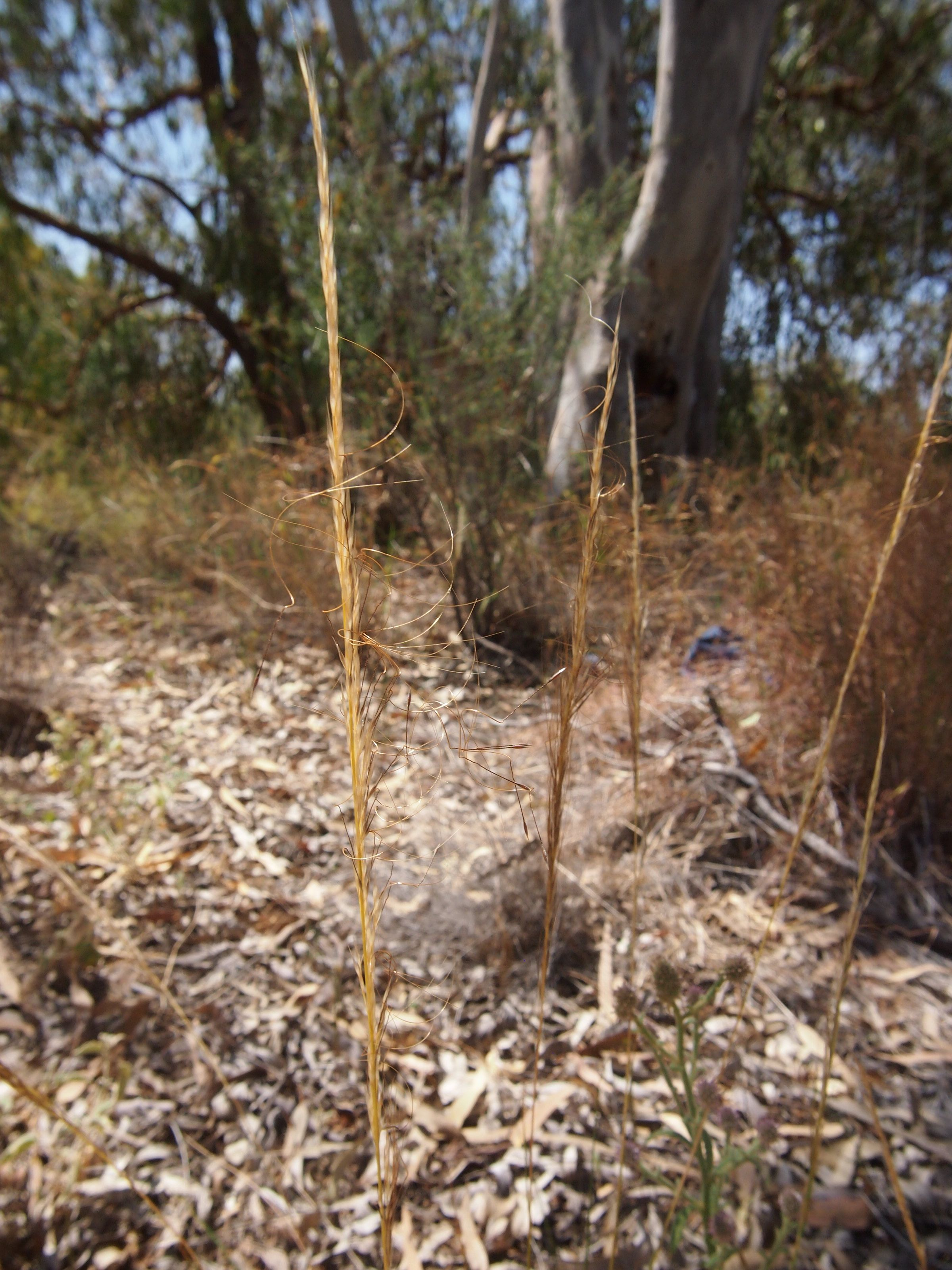 Austrostipa nitida seedhead